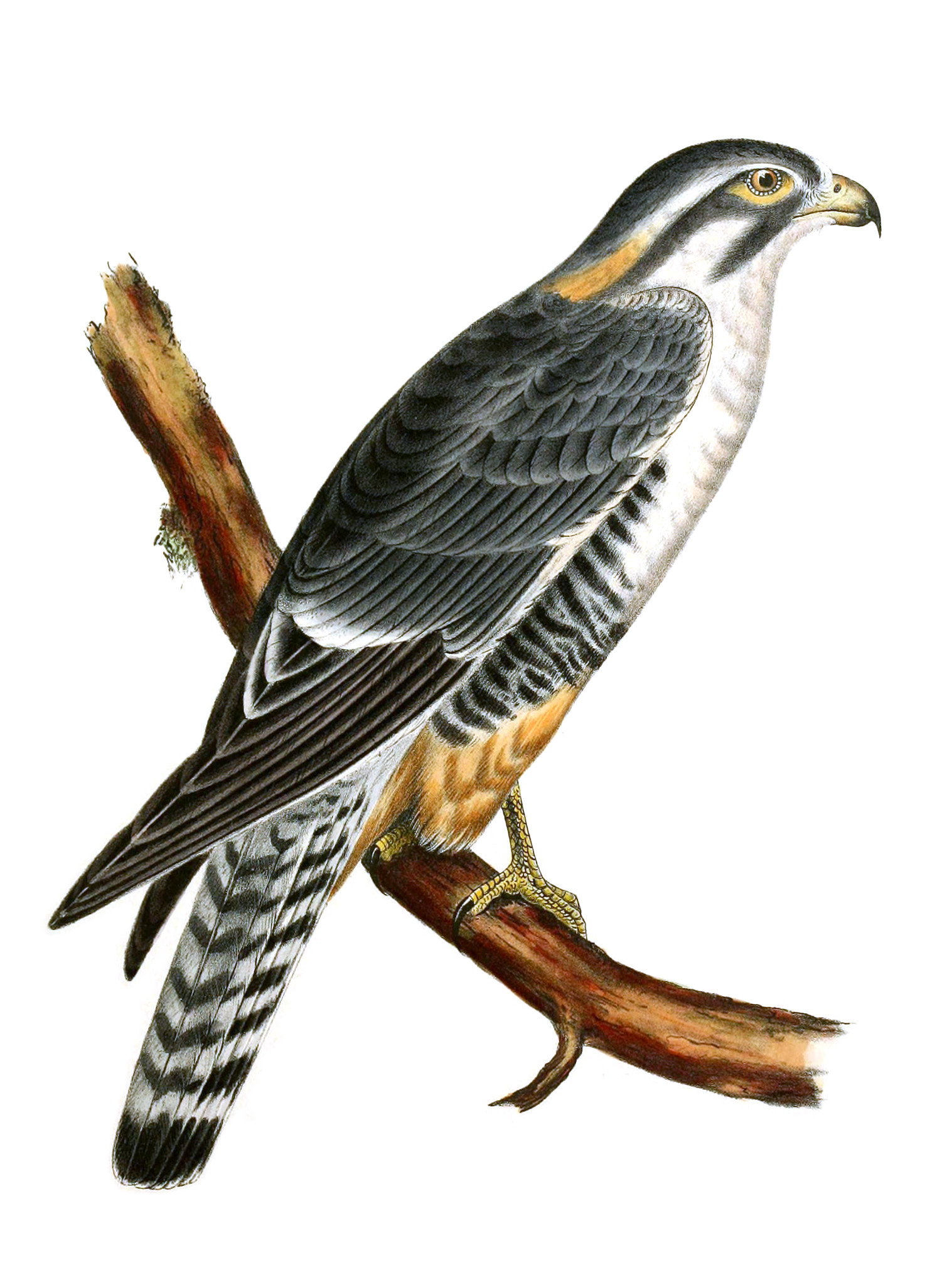 Aplomado Falcon, adult, Falco femoralis, hand-colored lithograph